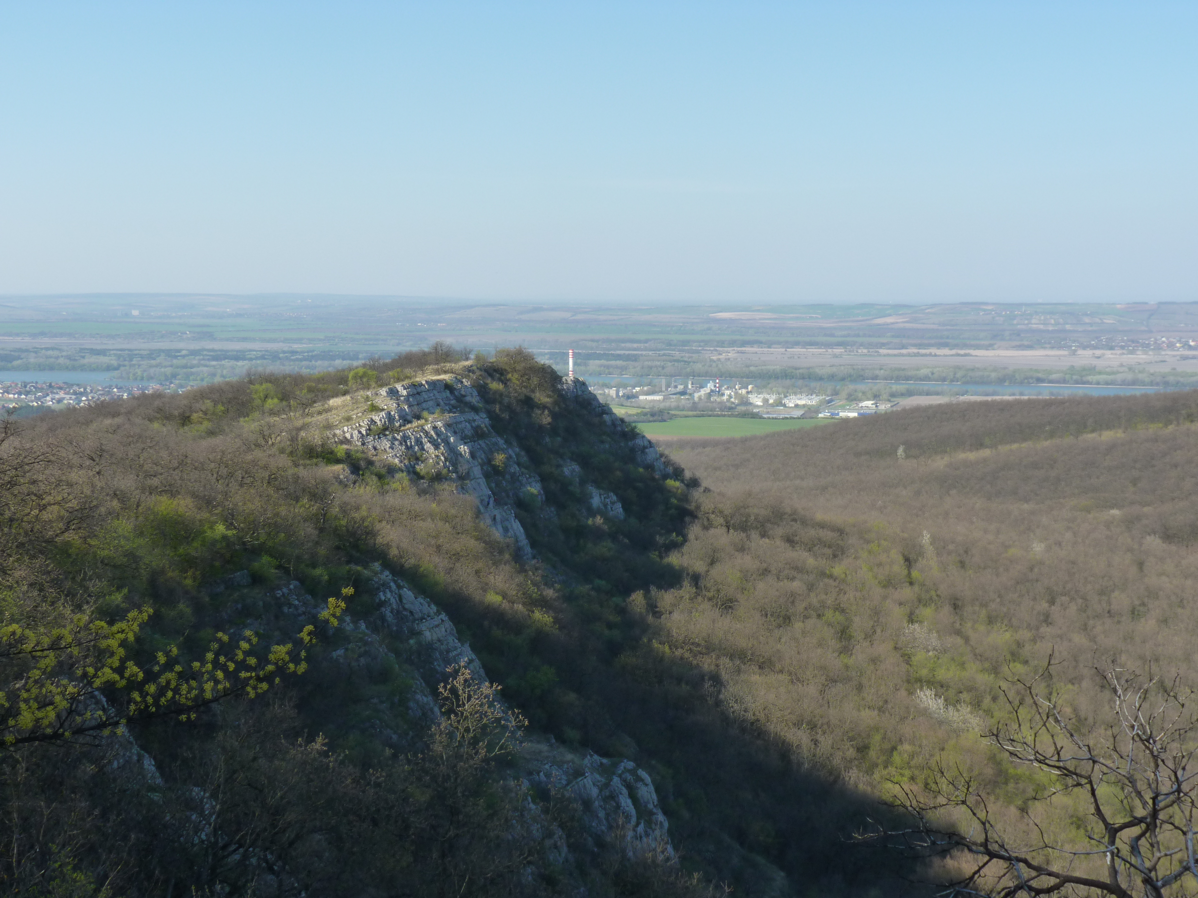 Öreg-kő, view towards North